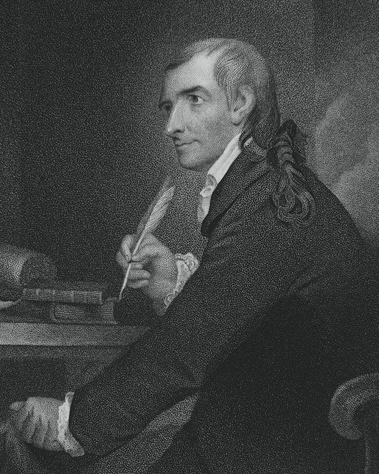 Engraving of Francis Hopkinson.